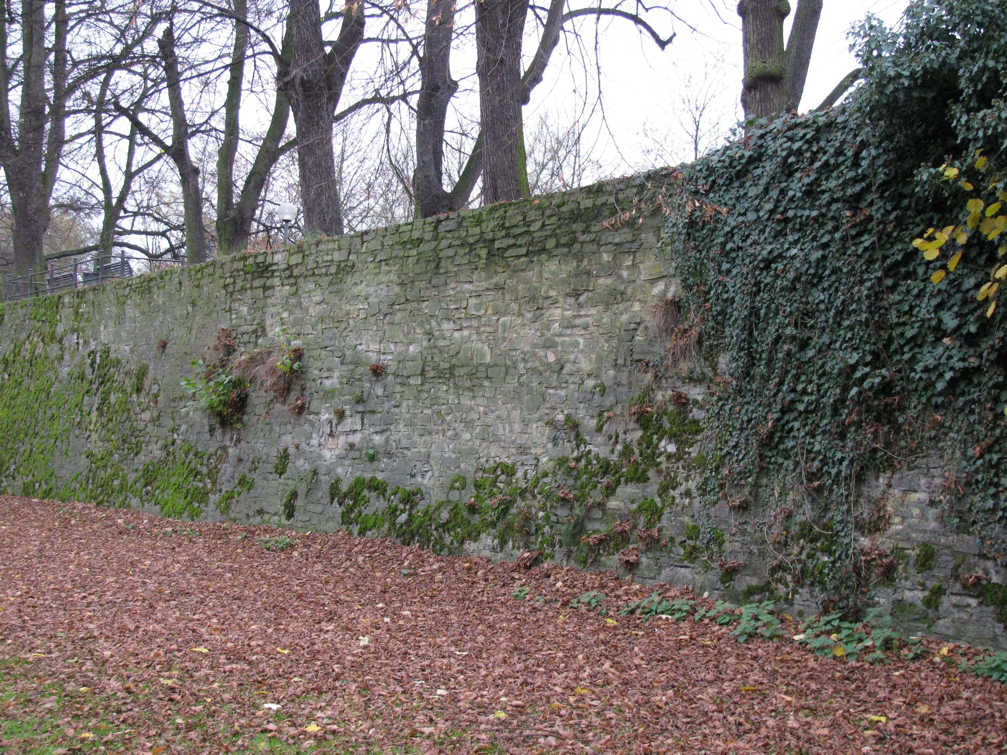 The Herrenteichswall was part of the city walls of Osnabrück, Lower Saxony, Germany. This earthen rampart was built in the 16th century. Its outer side is covered with a stone revetment. Originally it was two meters higher than today.